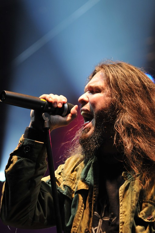 Dan Nelson, former vocalist of Anthrax, performing live at Hellfest Open Air (2009).